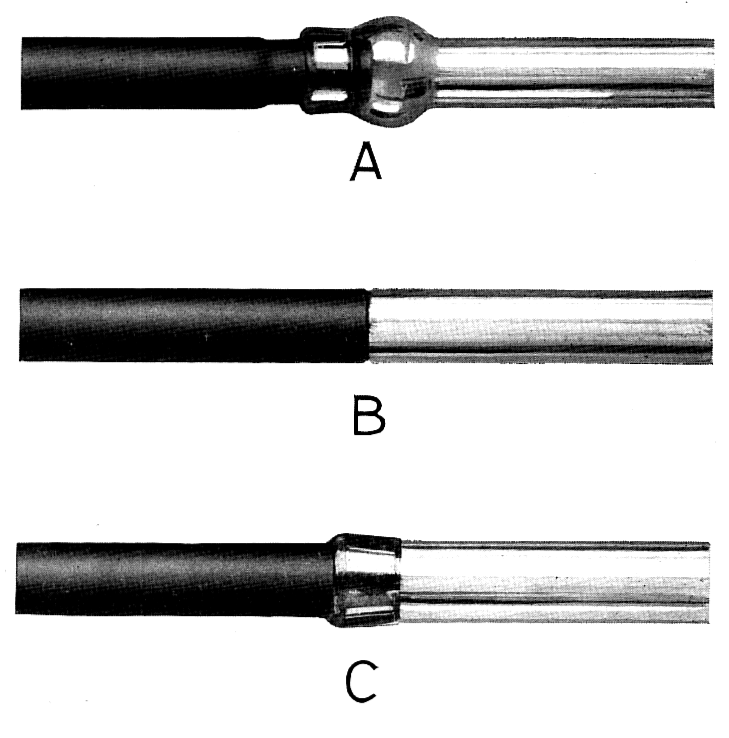 Diagram showing three kinds of glass-to-metal seals, for use in vacuum tubes. Scale: the lengths shown are each 6 inches (15.25 cm). Excerpt of the original discussion (pp. 10-11): "The third type of seal and the most important in connection with the current problem is the tube seal shown in Fig. 5. This furnishes the means of joining metal and glass tubes end to end and is used in the water-cooled tube to attach the anode to the glass cylinder which serves to insulate the other tube elements. As in the case of the disc seal, it can be made either with the edge of the metal not in contact with the glass, as shown in A, or with the metal sharpened to a fine edge which is in contact with the glass. The glass may be situated either inside or outside of the metal, see B and C. The first thermionic tubes in which these seals were embodied were made of copper and were designed to operate at 10,000 volts and to give about 5 k. w. output."